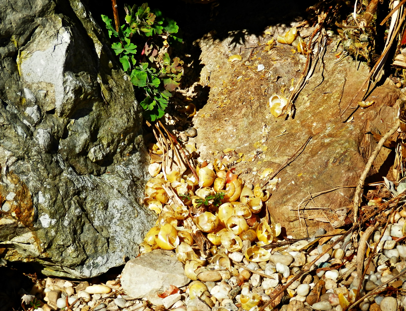 An Anvil, photographed in the Vienna Woods.